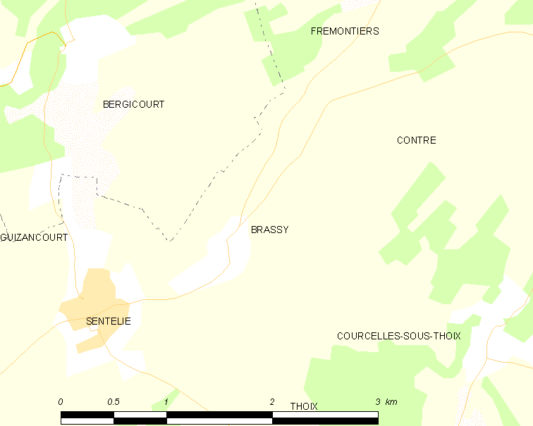 Map of French municipality Brassy